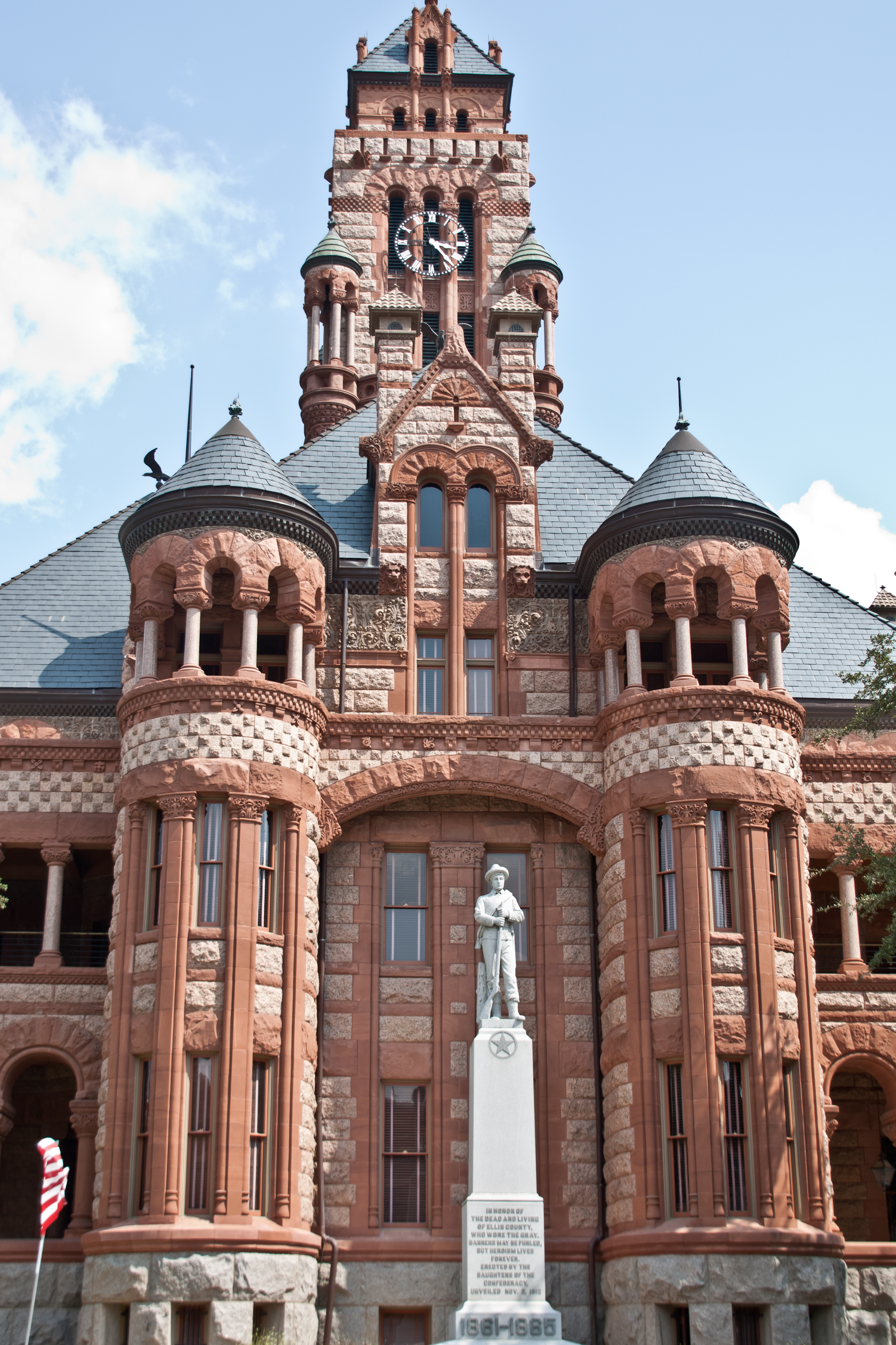 Ellis County Courthouse Historic District